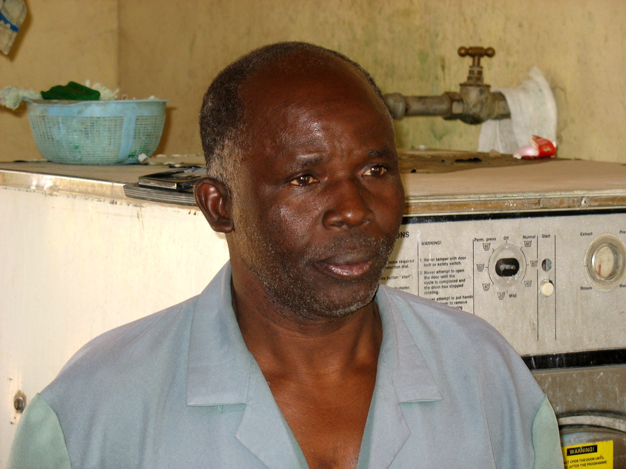 Laundry worker at work in a Nigerian hospital. Washing machine in background.